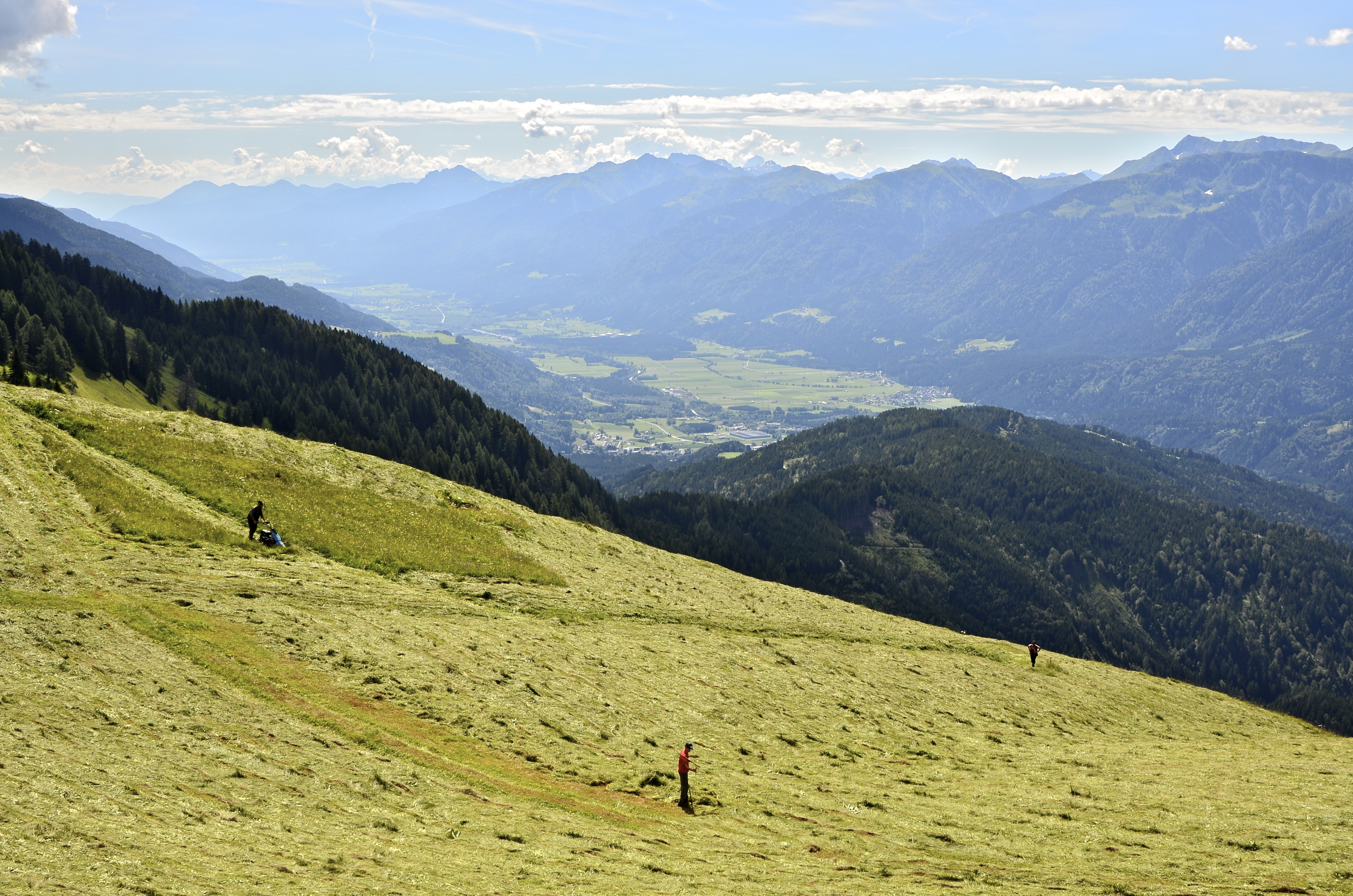 Haymaking on the Mussen alp at Strajach, municipality Kötschach-Mauthen, district Hermagor, Carinthia / Austria / EU